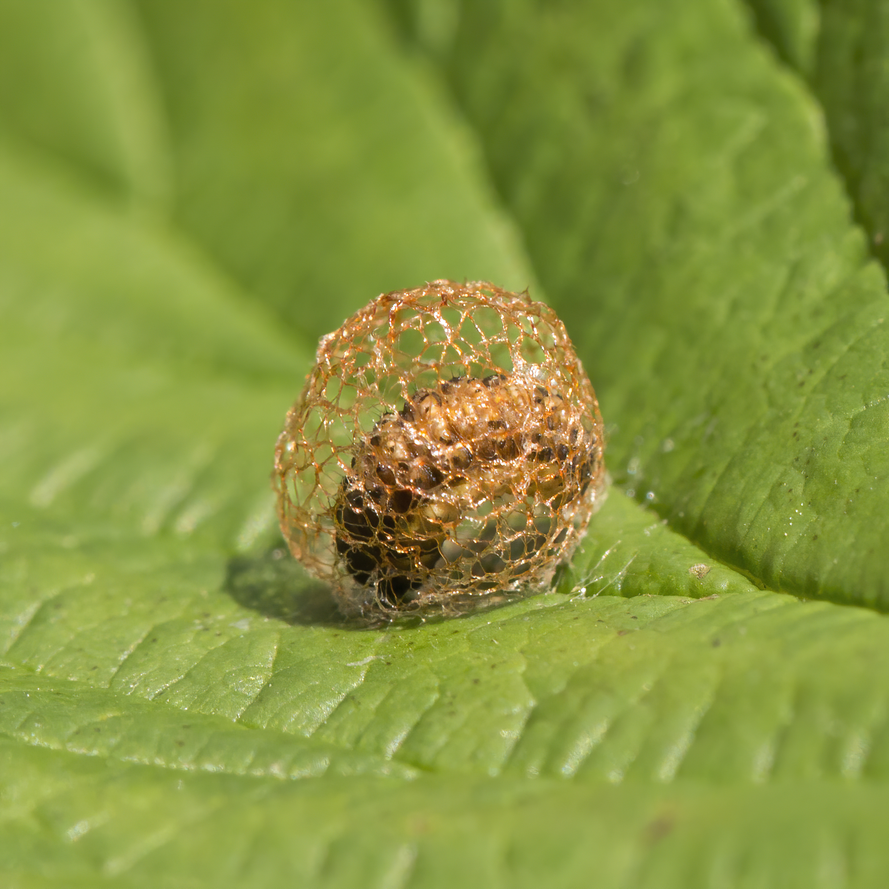 Weevil (Hypera rumicis) larva, Otmoor, Oxfordshire